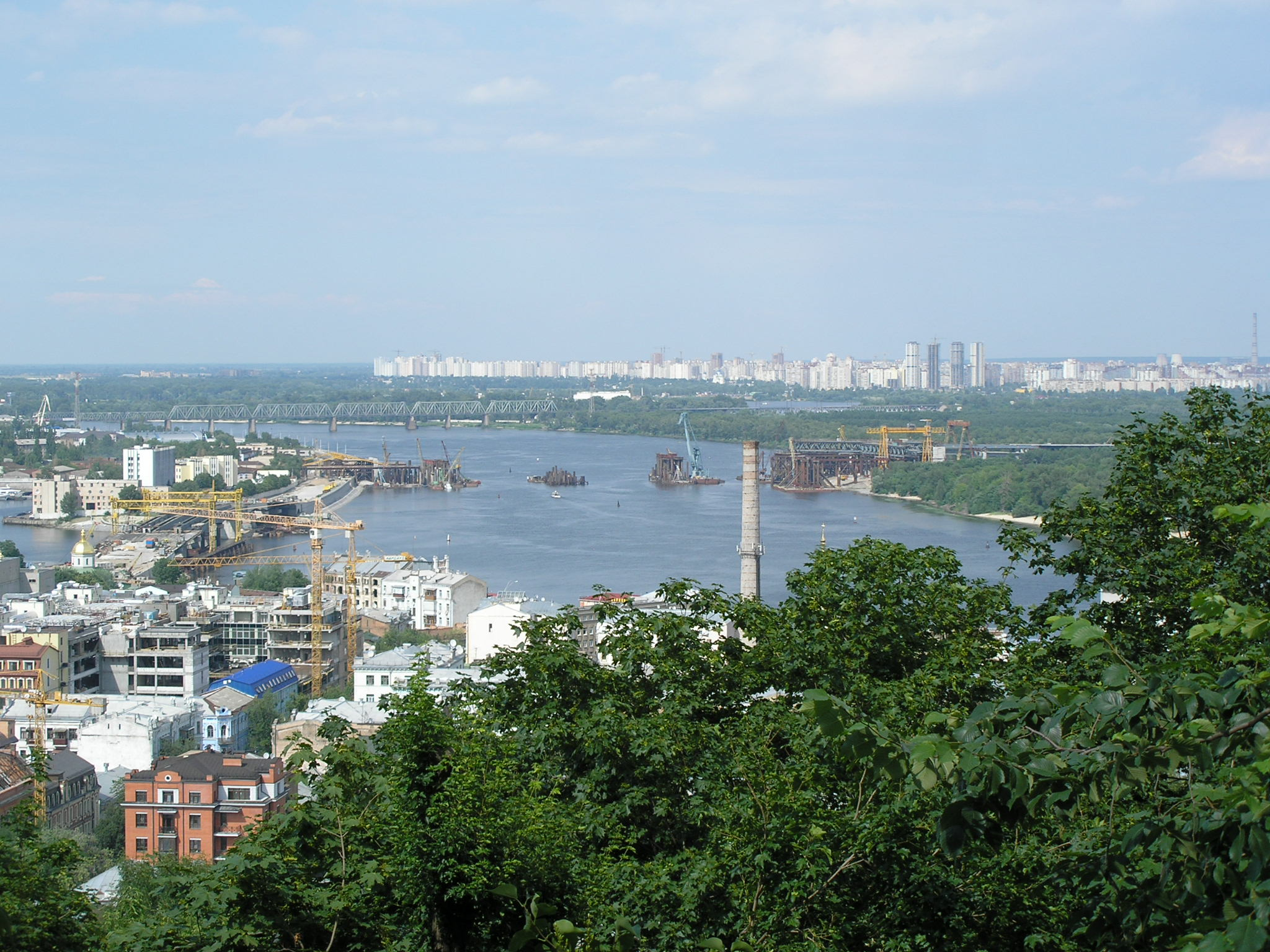 The construction of the Podilskyi Metro Bridge as seen from the St. Andrew's Cathedral in Kiev, the capital of Ukraine.